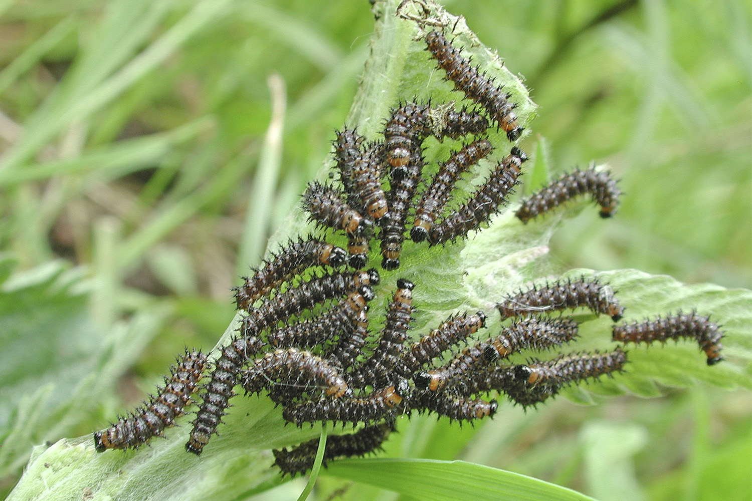 Map (Araschnia levana) caterpillars